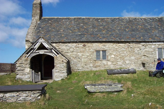 St Celynnin church. Ancient St Celynnin church isolated above Rowen